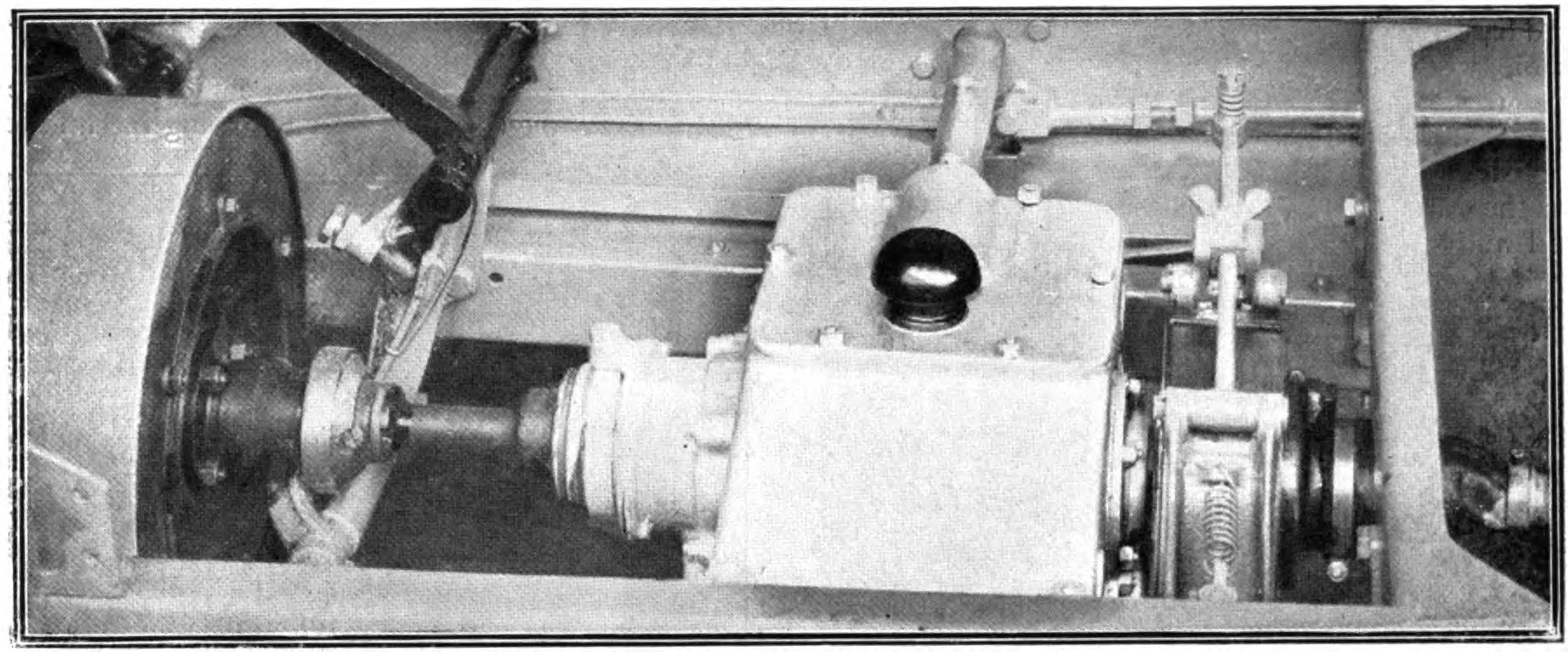 L to R: clutch gearbox and transmission brake (operated by brake pedal)Pedals at top left, pads out of sight